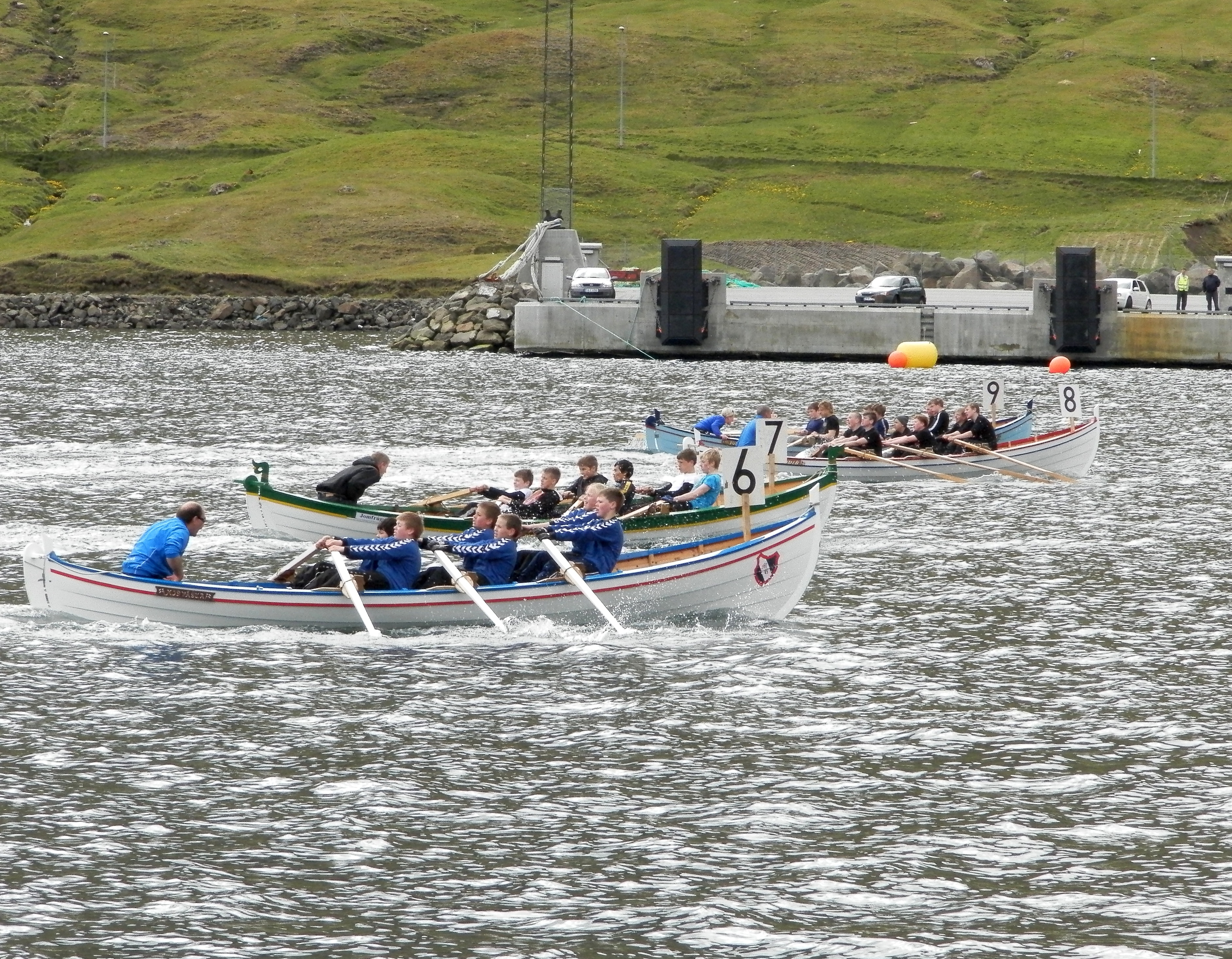 Children's rowing on Sundalagsstevna in Kollafjørður in the Faroe Islands. The boys are under 15 years old. They row 500 meters. The winner of this rowing race was Junkarin, the light blue boat with number nine. Number two was Fípan Fagra from Klaksvík, which has number 8. There are two kategories for children under 15, one for boys and one for girls, and there are 2 categories for young people under 18, one for boys and one for girls. The young under 18 are rowing 1000 meters.There are five more categories for adults depending on the boat type and gender. Føroyskt: Barnaróður hjá dreingjum á Sundalagsstevnu 2012. Vinnari gjørdist ljósablái báturin, Junkarin, frá Kvívík, nummar tvey gjørdist Fípan Fagra úr Klaksvík, nummar trý gjørdist Jómfrúgvin frá Vestmanna, Pílur nummar fýra (sæst ikki á myndini), nummar fimm Kollur (sæst ikki), nummar seks Frúgvin og nummar sjey gjørdist Sílið (sæst ikki).